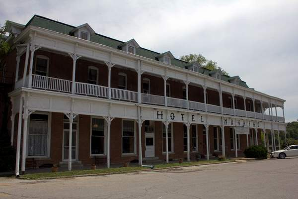 Closeup image of the Hotel Manning inKeosauqua, Iowa. Details of the "steamboat design" are clearly visible.